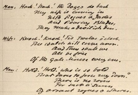 Detail of a page from the 1672 Westminster Drollery, showing the first three (of five) verses to a variant of "Hark Hark the Dogs Do Bark"